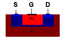 FET diagram.